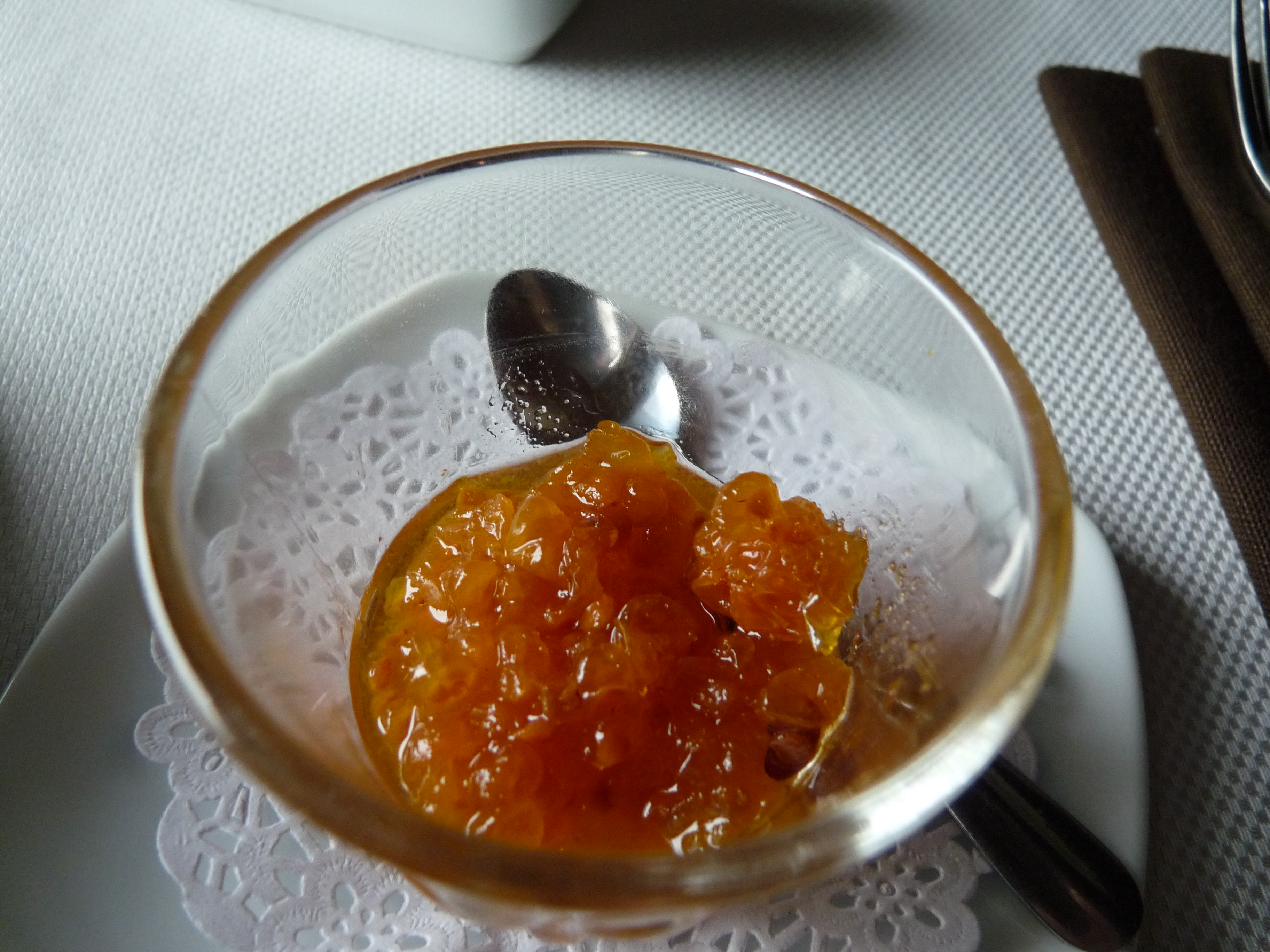 Russian Cuisine. Moroshka Varenye (Rubus chamaemorus Jam)